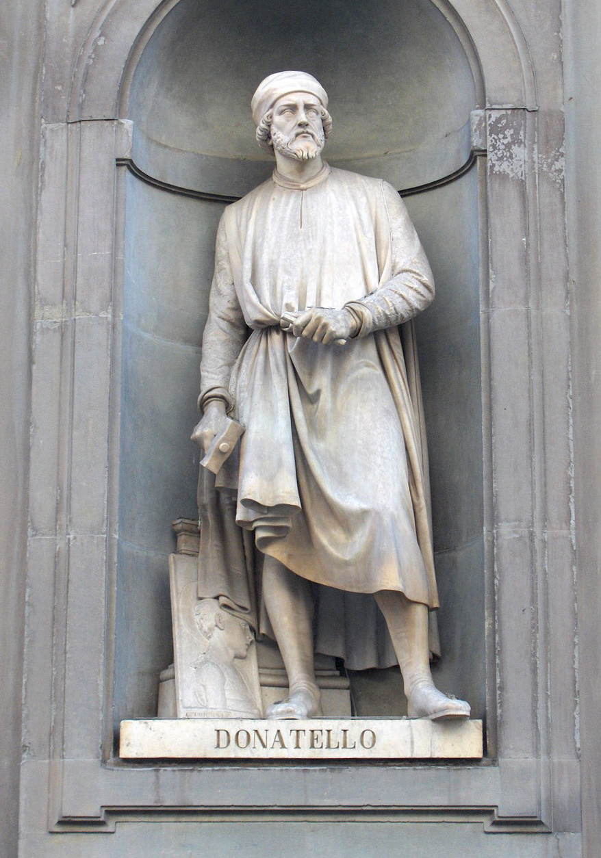 Statues at the Uffizi, on the facade of the Gallery building. Famous florentines: Donatello. Picture by used Frieda, September 18 2004.